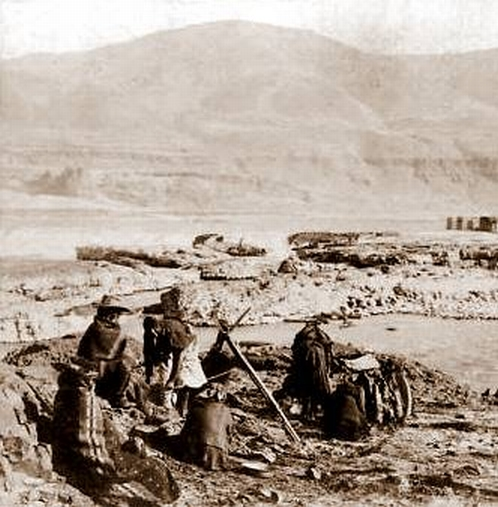 Very nice Kilburn stereo view. No copyright but must date c. 1900. Titled, "Sceneries of Columbia River, Indians drying salmon, Celilo Falls, Oregon". No. 10541, B.W. Kilburn Company. James Davis photo.